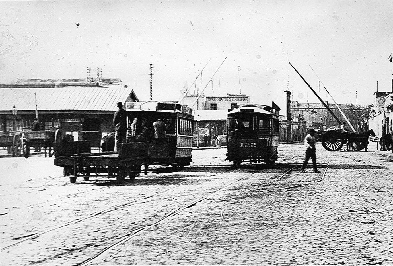 Tres Esquinas railway station, located in Barracas and part of the Buenos Aires & Ensenada Port Railway network.